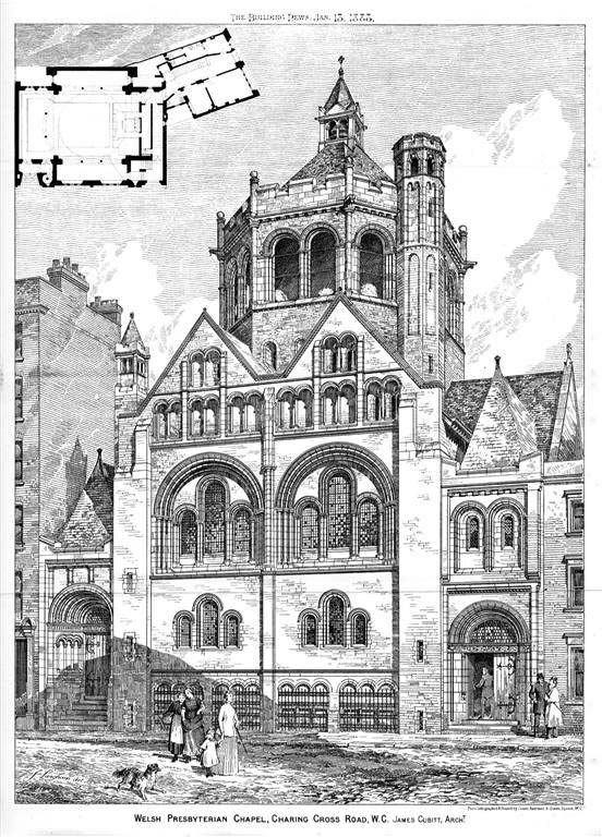 1888 print and plan of the former Welsh Presbyterian Chapel in Charing Cross Road, London, seen from the northeast